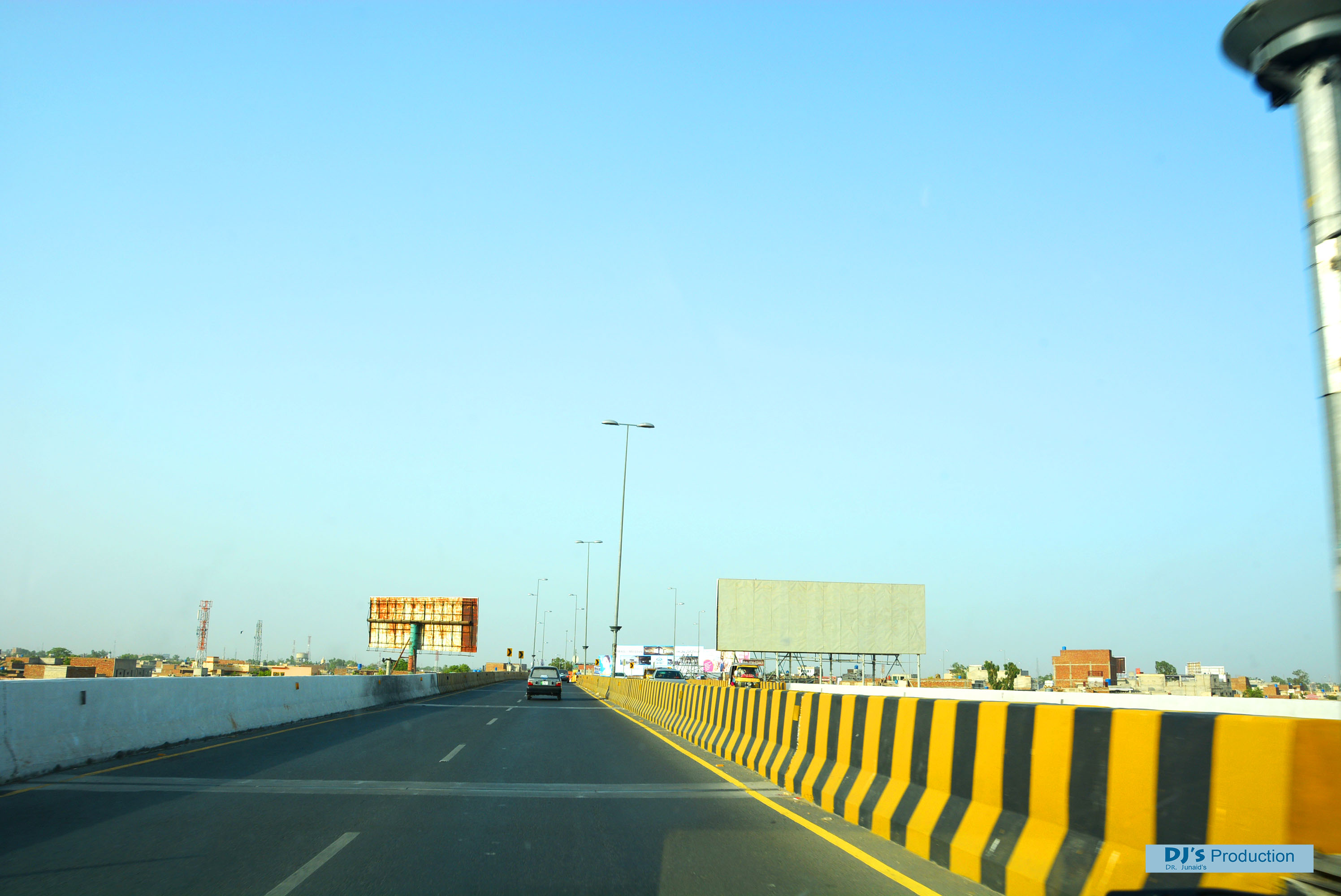 It is one of largest flyover in Multan Pakistan